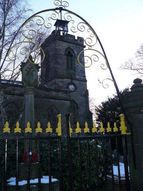 Gate and west tower of St James' parish church, Shardlow, Derbyshire